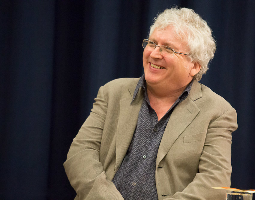 Lama Jampa Thaye, 2012